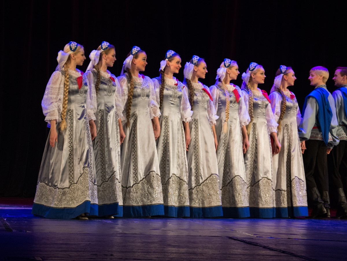 Russian folk ensemble Berezka and costumes